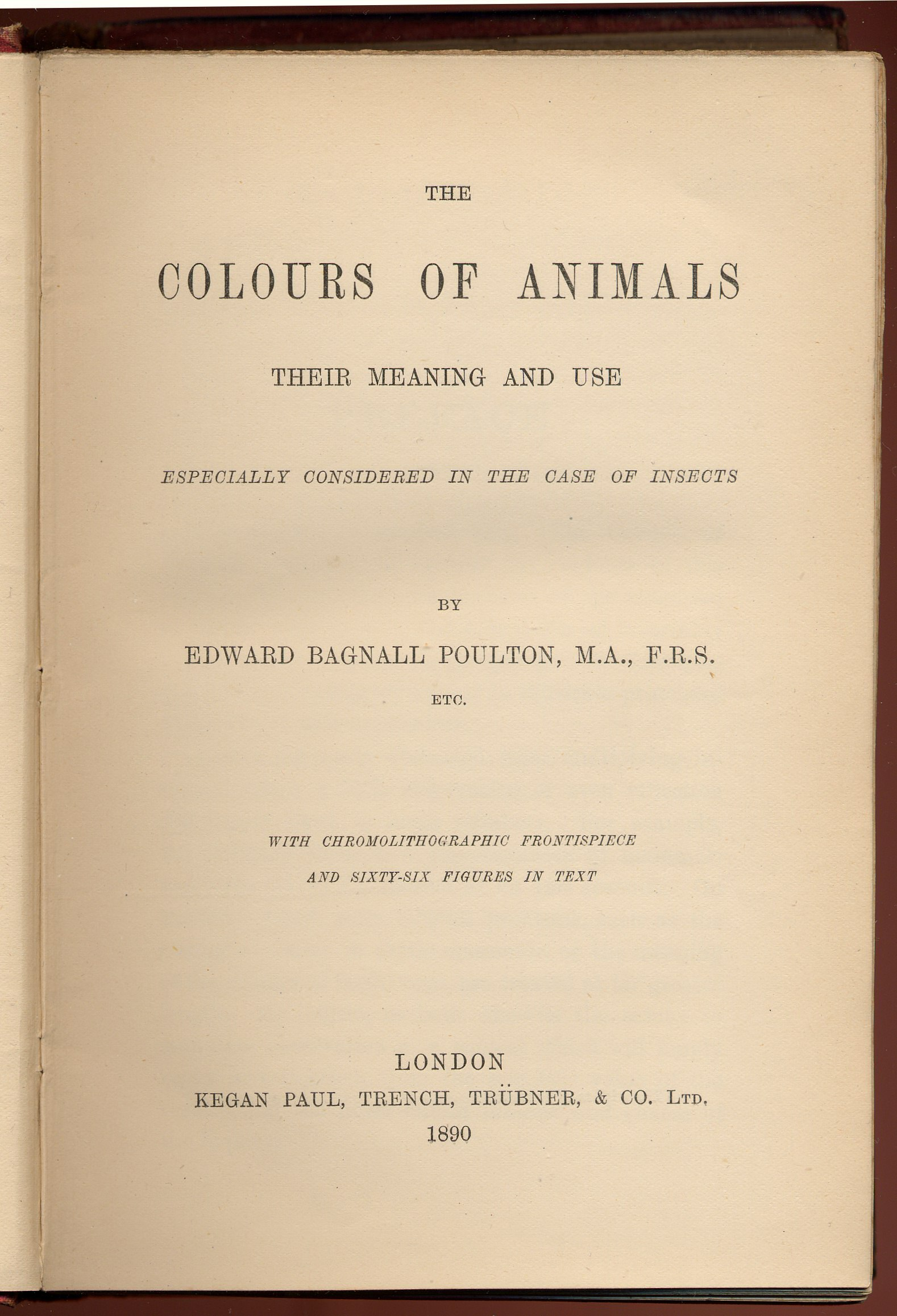 Title page of first edition of The Colours of Animals, their meaning and use, especially considered in the case of insects by Edward Bagnall Poulton, MA, FRS, etc, published by Kegan Paul, Trench, Trübner, & Co, 1890